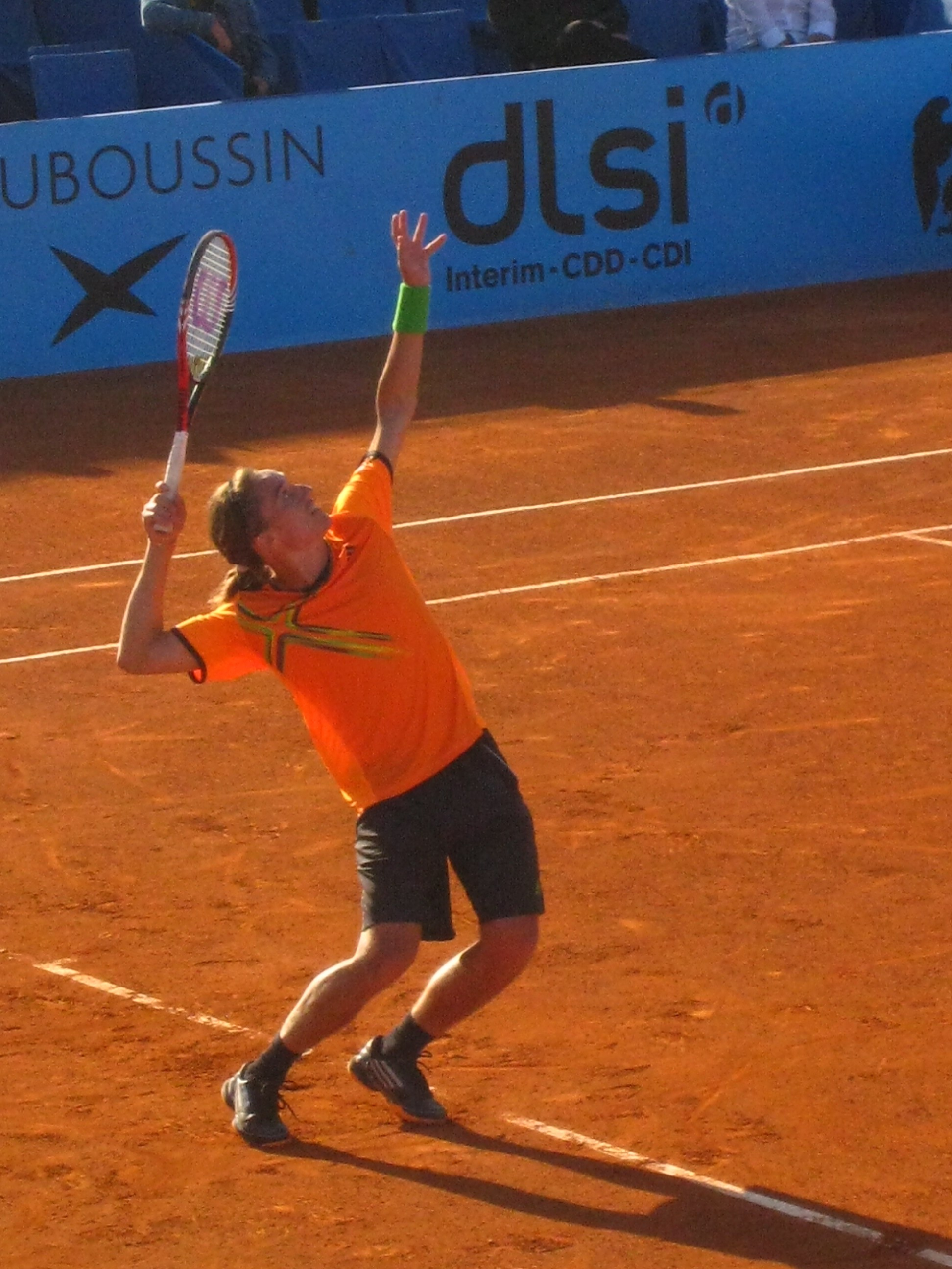 Alexandr Dolgopolov at the Open de Nice Côte d'Azur in 2011.